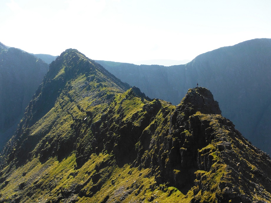 The summit of The Bones, a Furth mountain in the MacGillycuddy's Reeks, that sits on the Beenkeragh Ridge, between Ireland's two highest mountains. Caher Ridge is behind.